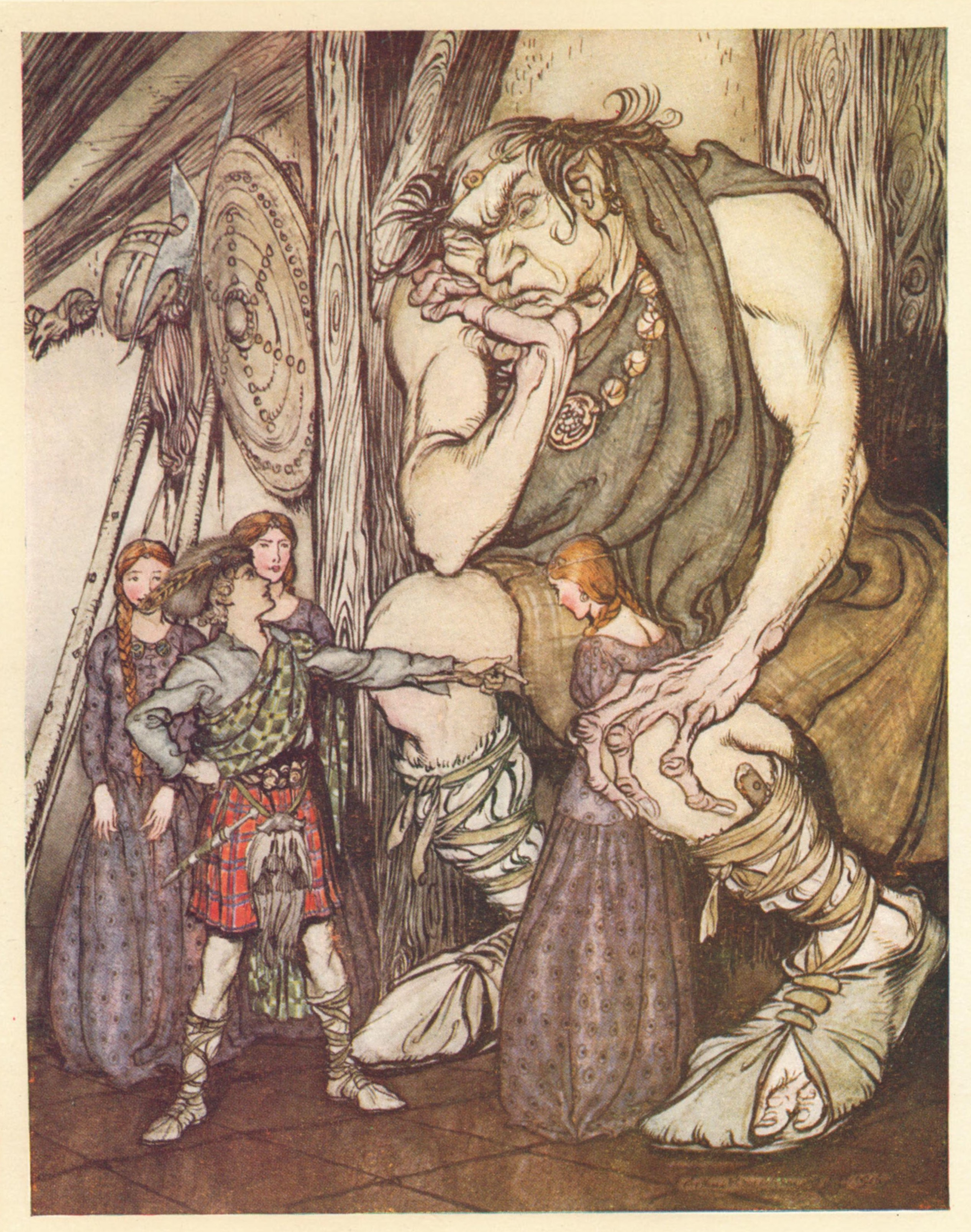 "“If thou wilt give me this pretty little one,” says the king's son, “I will take thee at thy word.”" From the Scottish fairytale of "The Battle of the Birds" in The Allies Fairy Book from 1916 ( link to page), illustrated by Arthur Rackham.